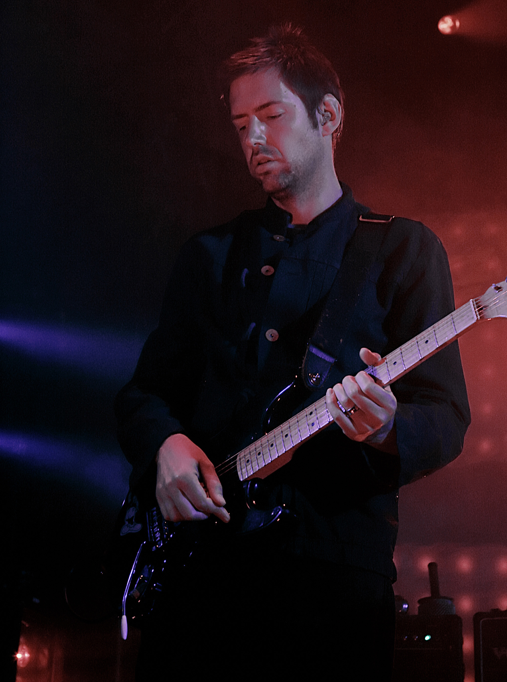 Ed O'Brien from Radiohead on stage at Blackpool